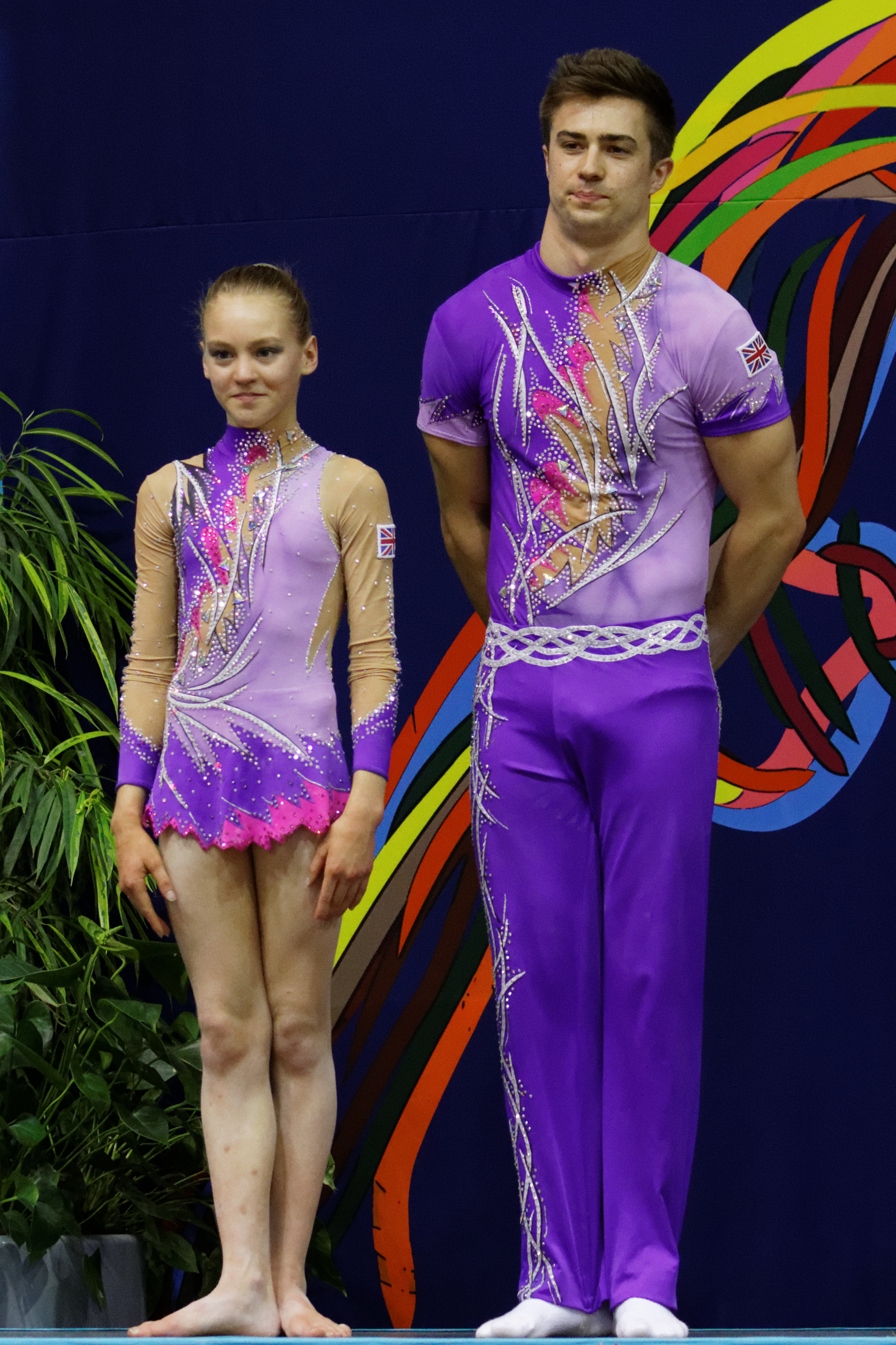 2014 Acrobatic Gymnastics World Championships, 10th-12 July, Levallois-Perret, France. Awarding ceremony.